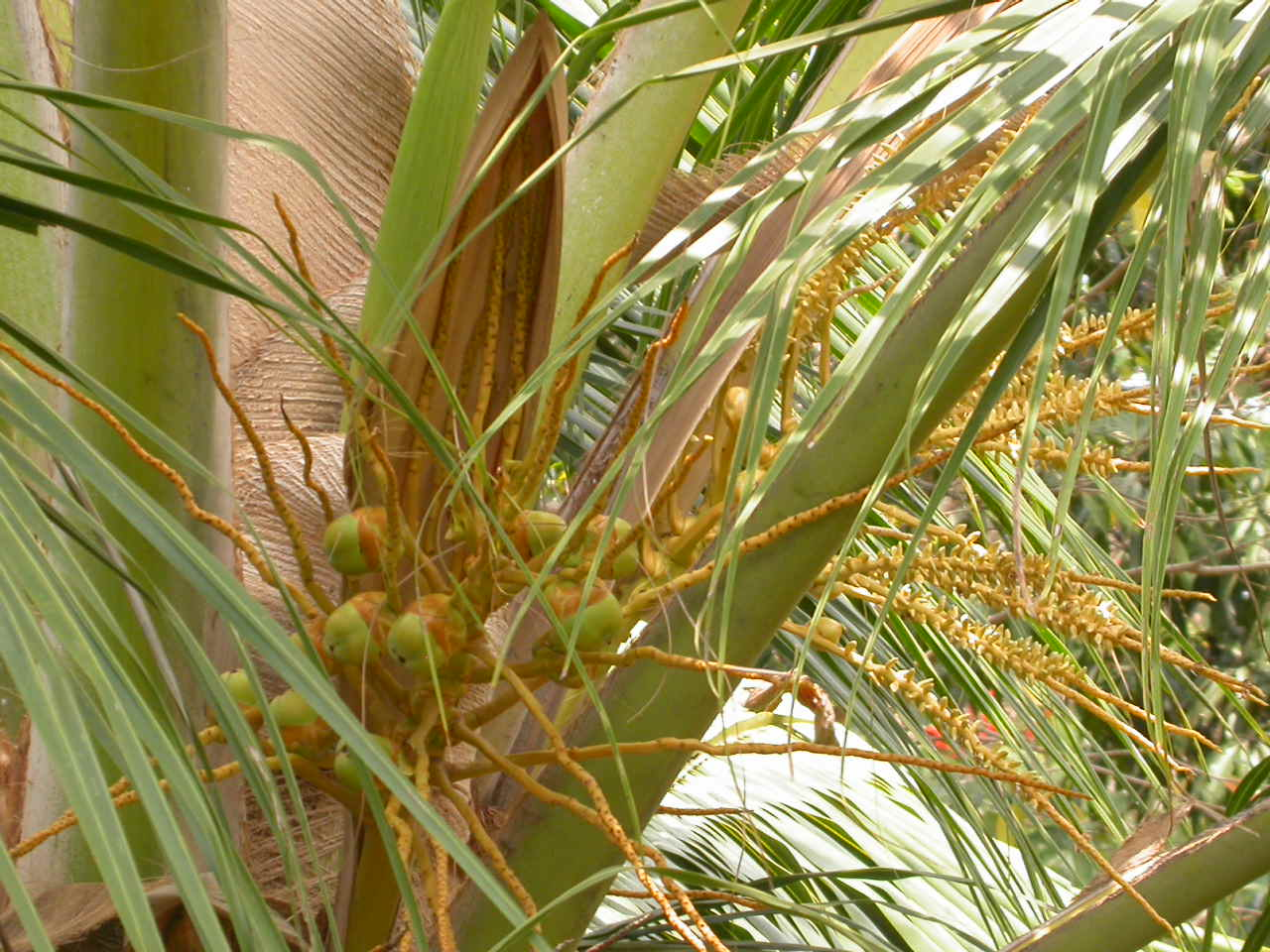 Coconut flower; Location: Taliparamba, Kannur, Kerala